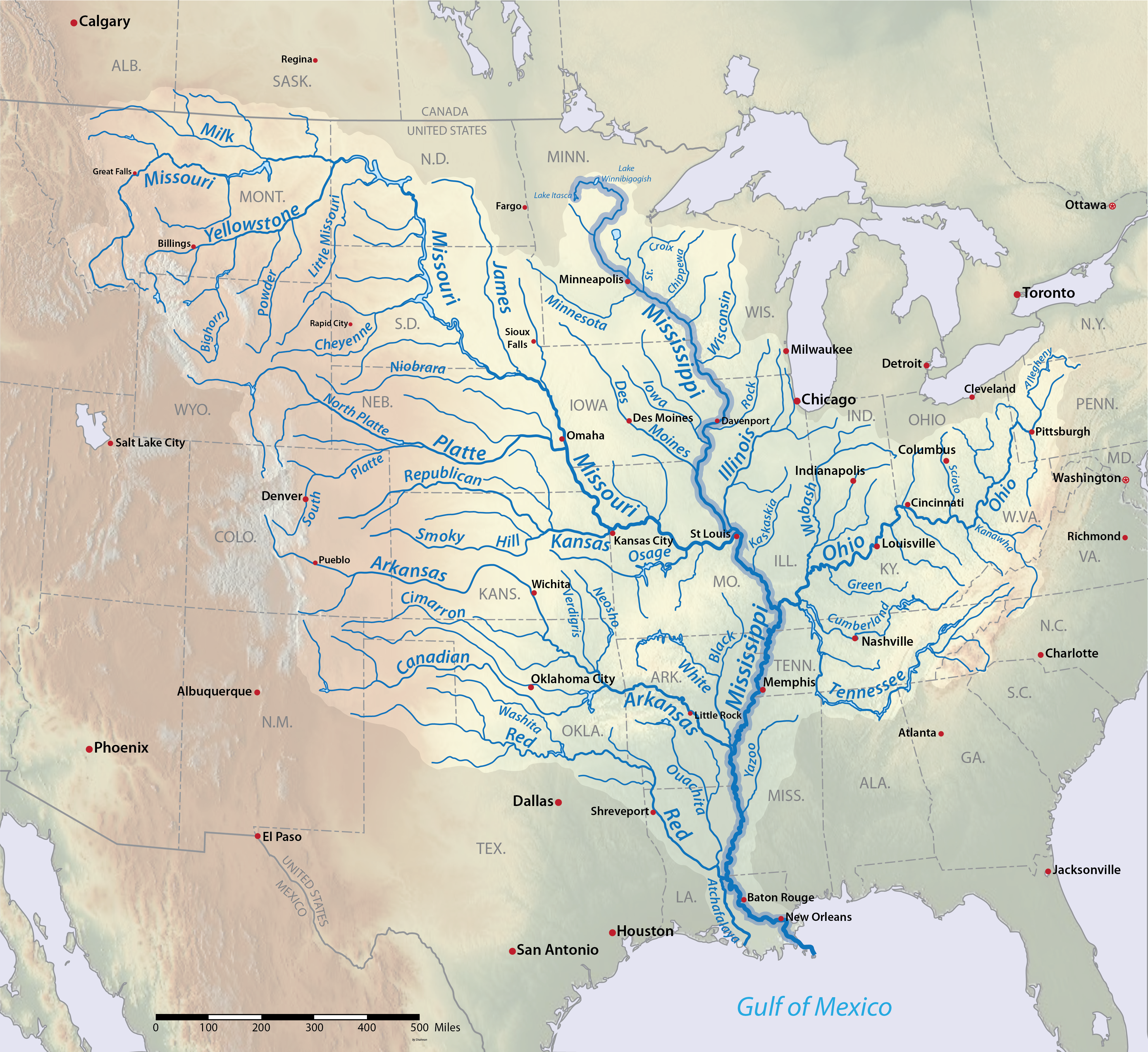 A more accurate Map of the Mississippi River Basin, intended to replace File:Mississippirivermapnew.jpg. Made using USGS data.